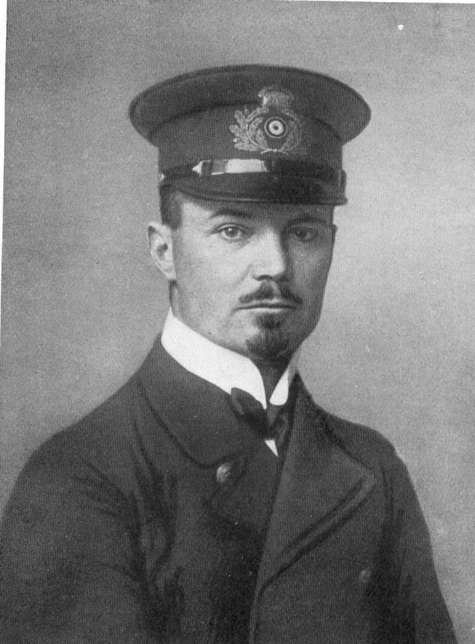 German naval officer Hermann Ehrhardt, leader of the navy battalion "Bridgade Ehrhardt" and right-wing extremist revolutionary group "Organisation Consul" in the wake of WWI.